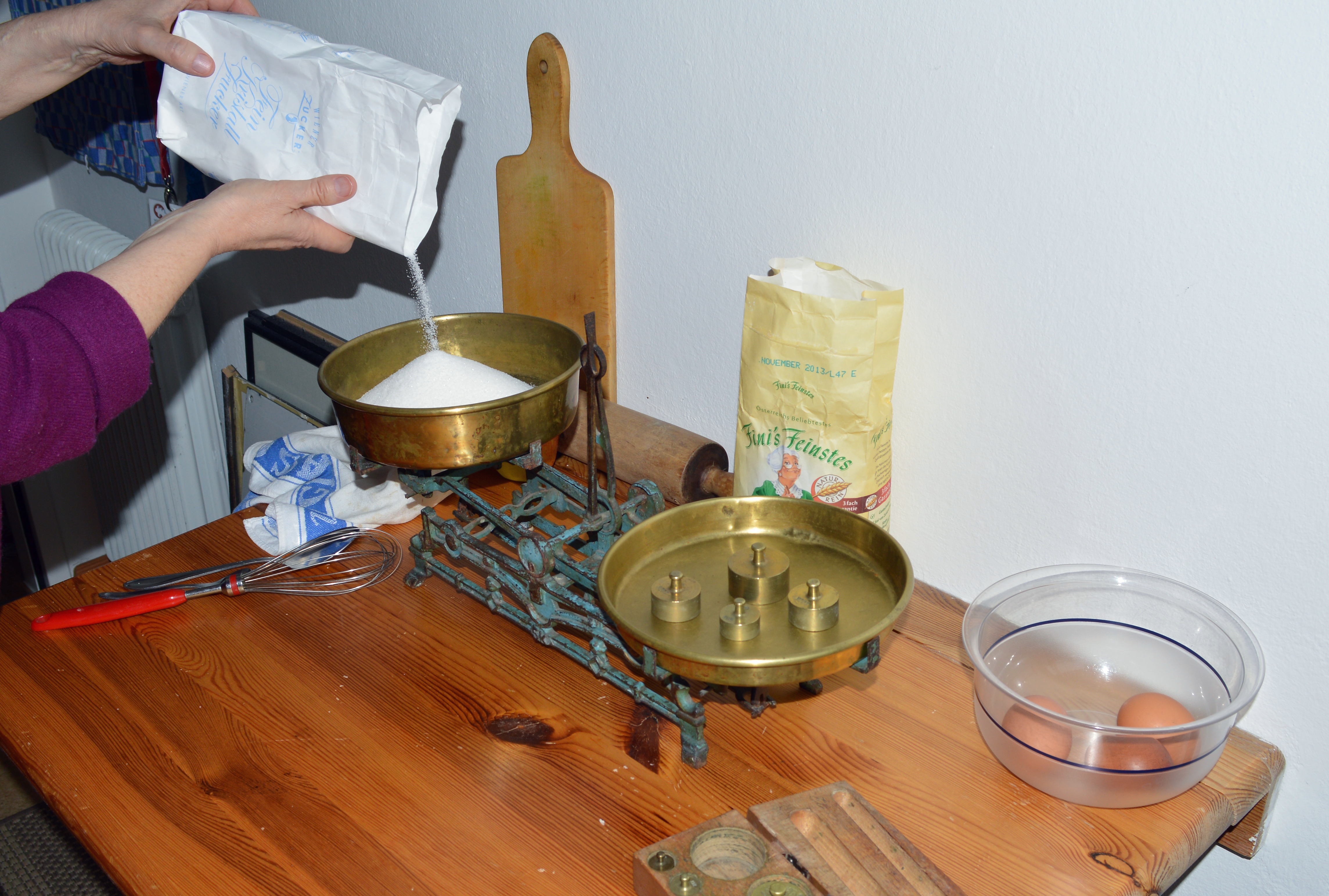 Weighing out sugar for a cake in aprivate kitchen in Zell am See, Salzburg (state), Austria.